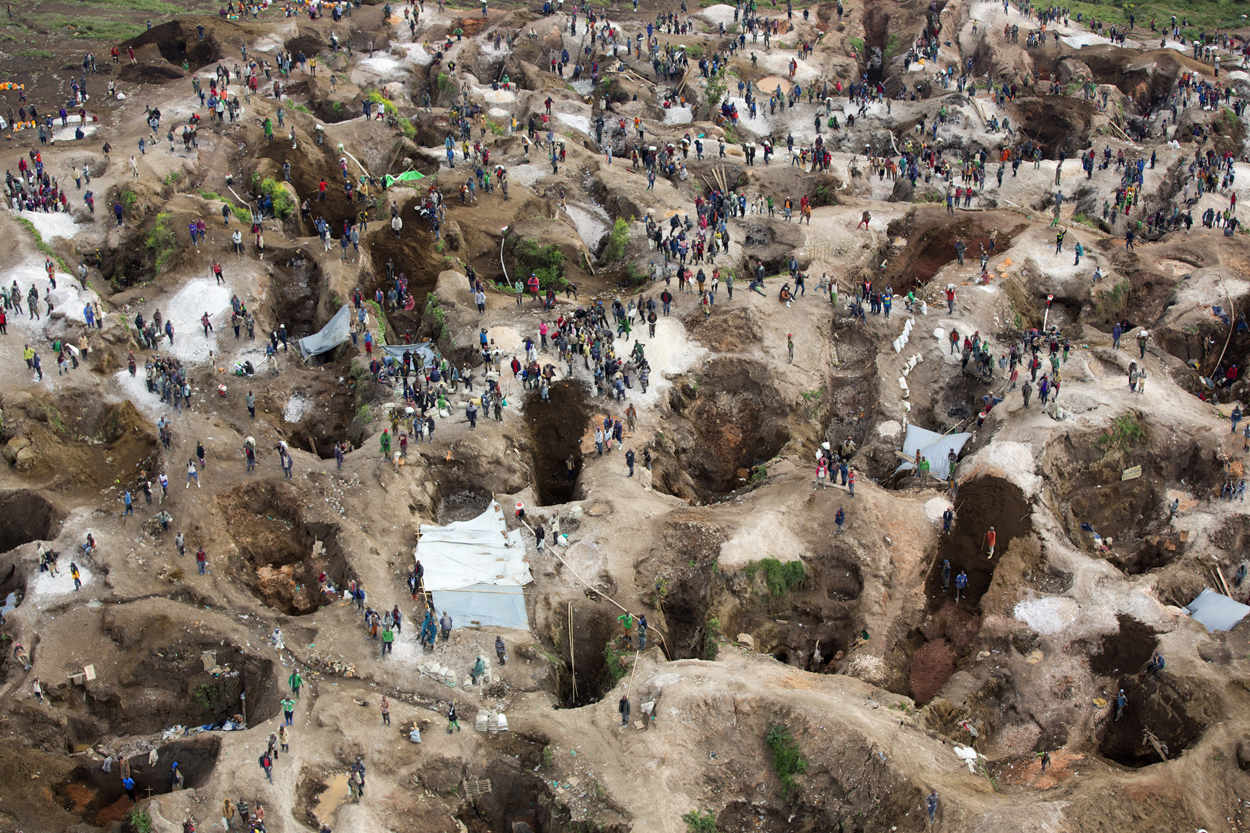 Luwowo Coltan mine near Rubaya, North Kivu the 18th of March 2014. © MONUSCO/Sylvain Liechti Luwowo is one of several validated mining site that respect CIRGL-RDC norms and guaranties conflict free minerals.